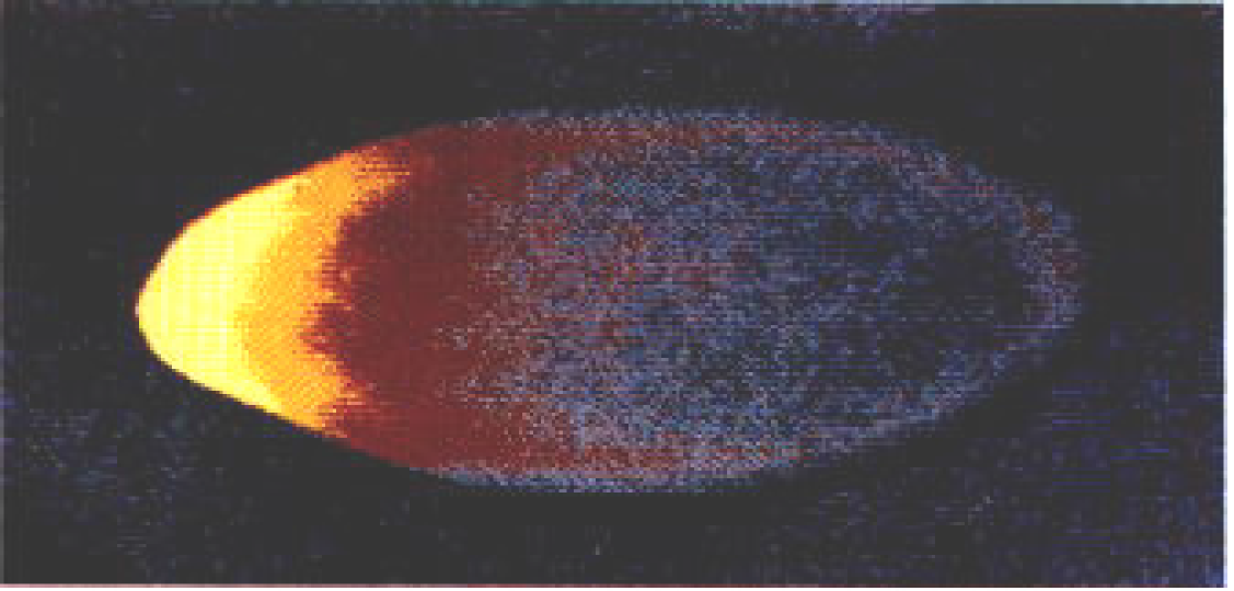 fluorescently labeled bicoid has clear gradient from anterior to the middle